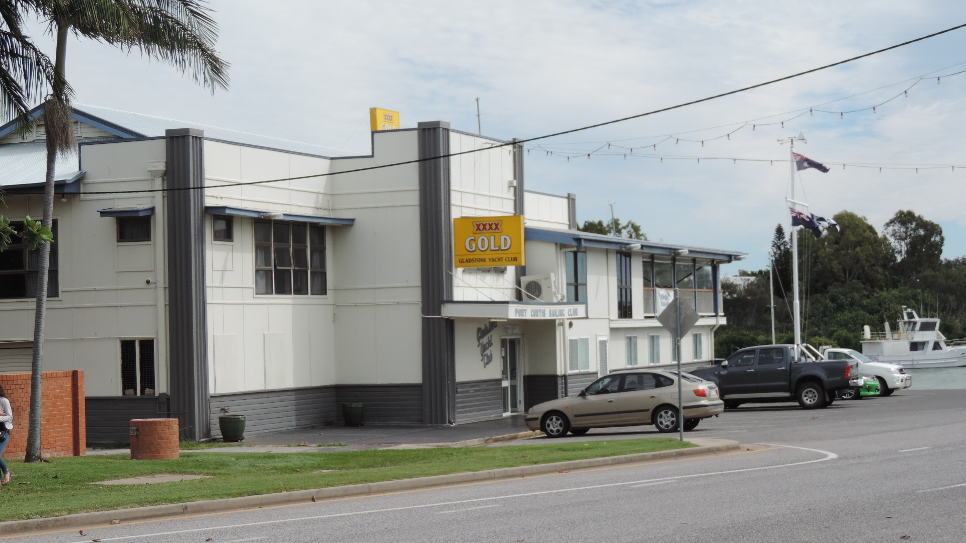 Port Curtis Sailing Club (view from Goondoon Street), Gladstone, 2014